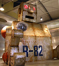 Roberta, a robot sculpture at the "Robotics" exhibition on Tekniska museet, Stockholm, Sweden